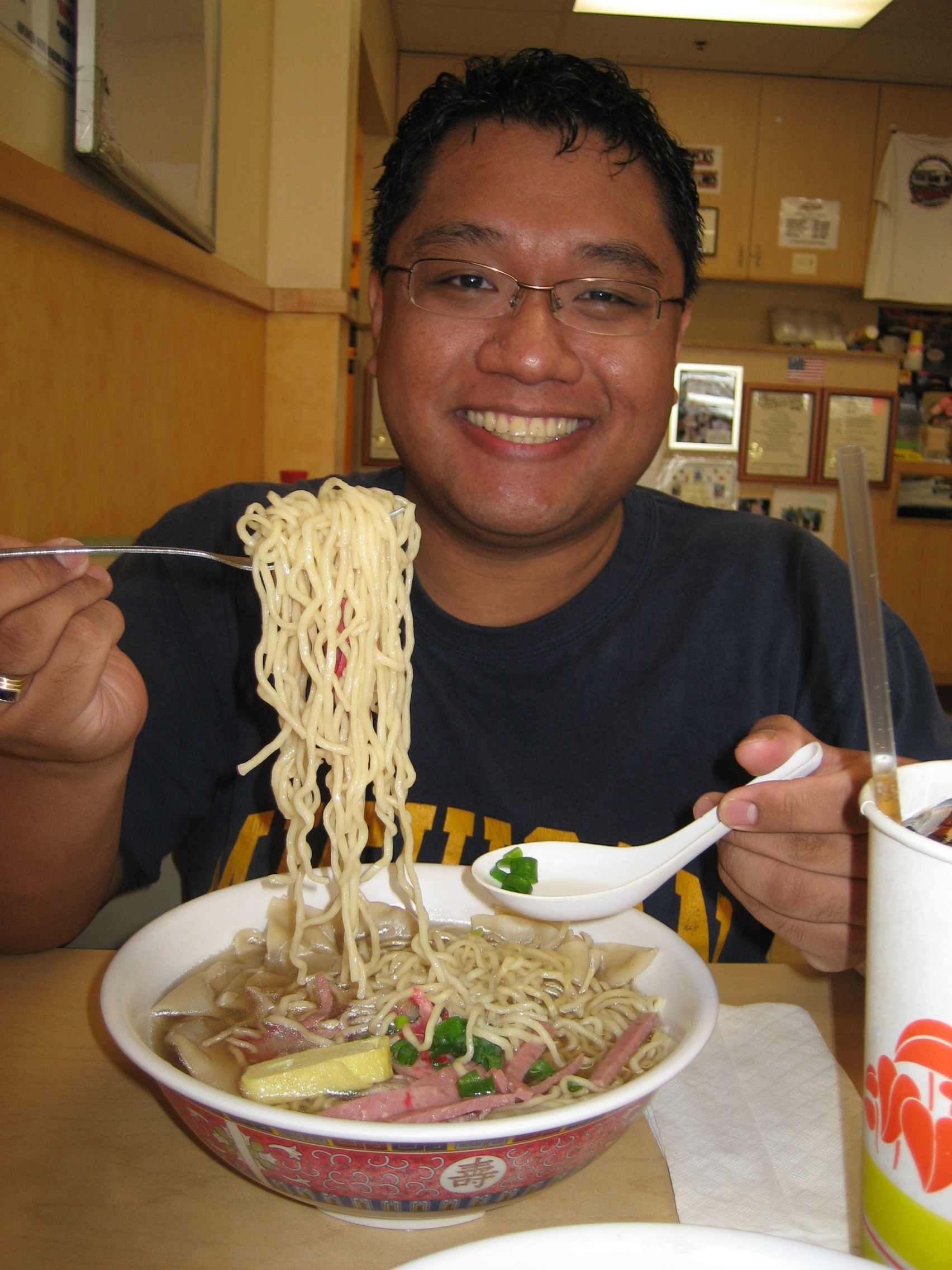 Photo by Jun Romeo Farinas and Gerald Farinas of Gerald Farinas at Shiro's Saimin Haven in Pearl City, Hawaii on Saturday, January 6, 2007.